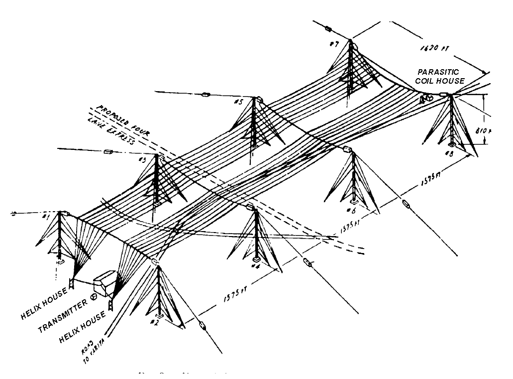 Drawing of large wire antenna used by US Navy to communicate with submarines at VLF frequencies, on US naval base at Yosami, Japan. It consists of a string of parallel horizontal wires 4575 ft long, suspended on 800 ft towers, fed at one end by feeders slanting down diagonally to the transmitter. This is called a "flatttop" antenna It is used at frequencies in the VLF band, around 20 kHz, because these frequencies can penetrate water to reach submarines. At these frequencies, with wavelengths of around 15 km, even this large antenna is a small fraction of a wavelength long, so it has a very low radiation resistance of less than an ohm. Therefore the resistances of the antenna/ground system have to be extremely low to avoid wasting energy. The vertical wires function as radiators, while the huge horizontal "flattop" serves as a capacitive "top-load" to increase the current in the vertical portion. Multiple parallel wires are used to increase capacitance and decrease the resistance. The ground under the antenna is covered by a "counterpoise" (not shown), a network of wires a few feet above the ground, which functions as the bottom plate of a huge capacitor.